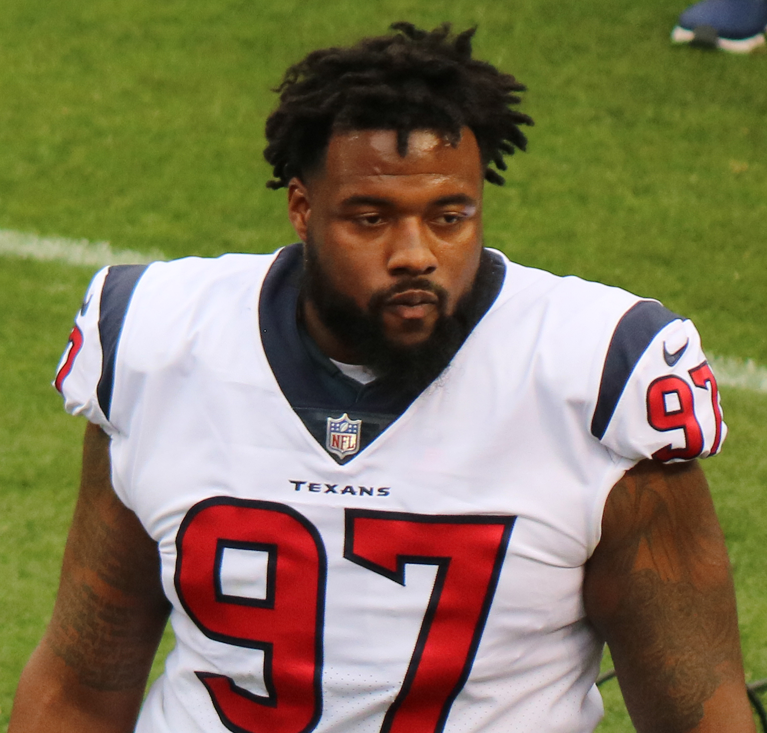 Angelo Blackson, a National Football League player.